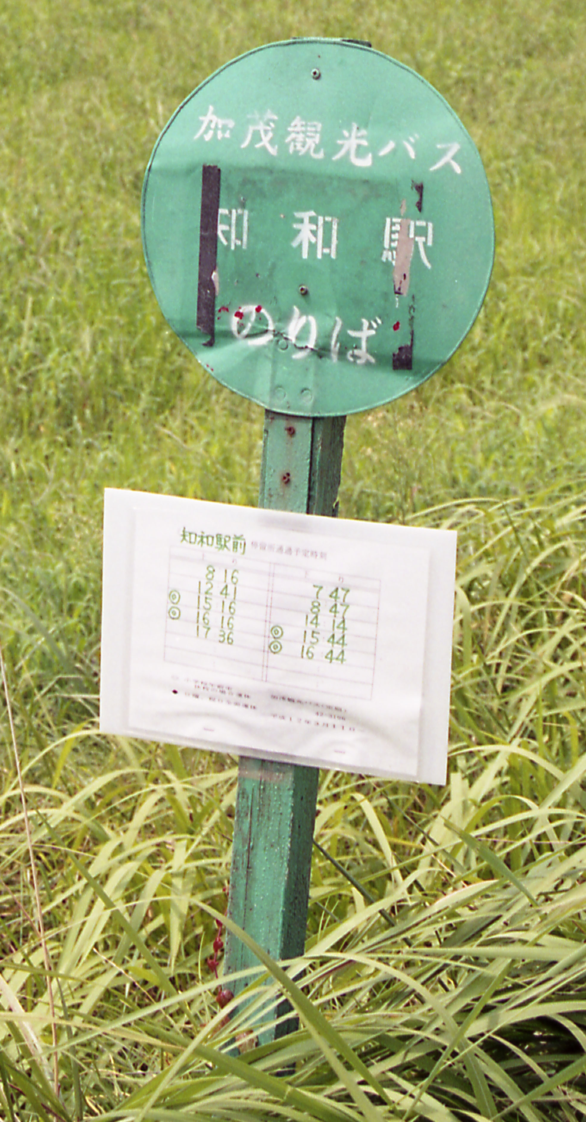 加茂観光バス（岡山県） 路線バスのバス停